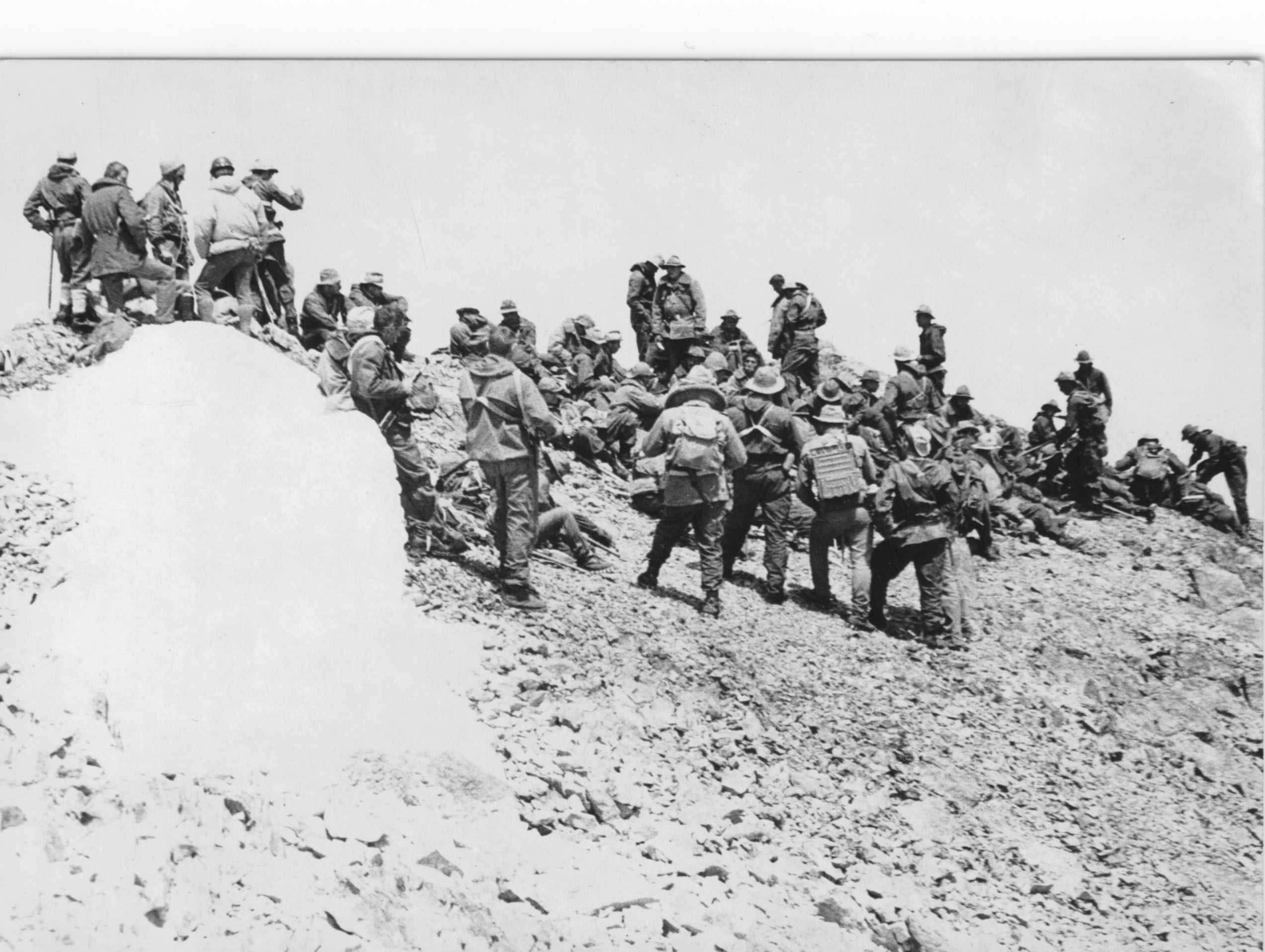 Lt. Leonid Khabarov and 100th Separate Airborne Reconnaissance Company on the top of newly-conquered VDV Peak of the Pamir Mountains.jpg